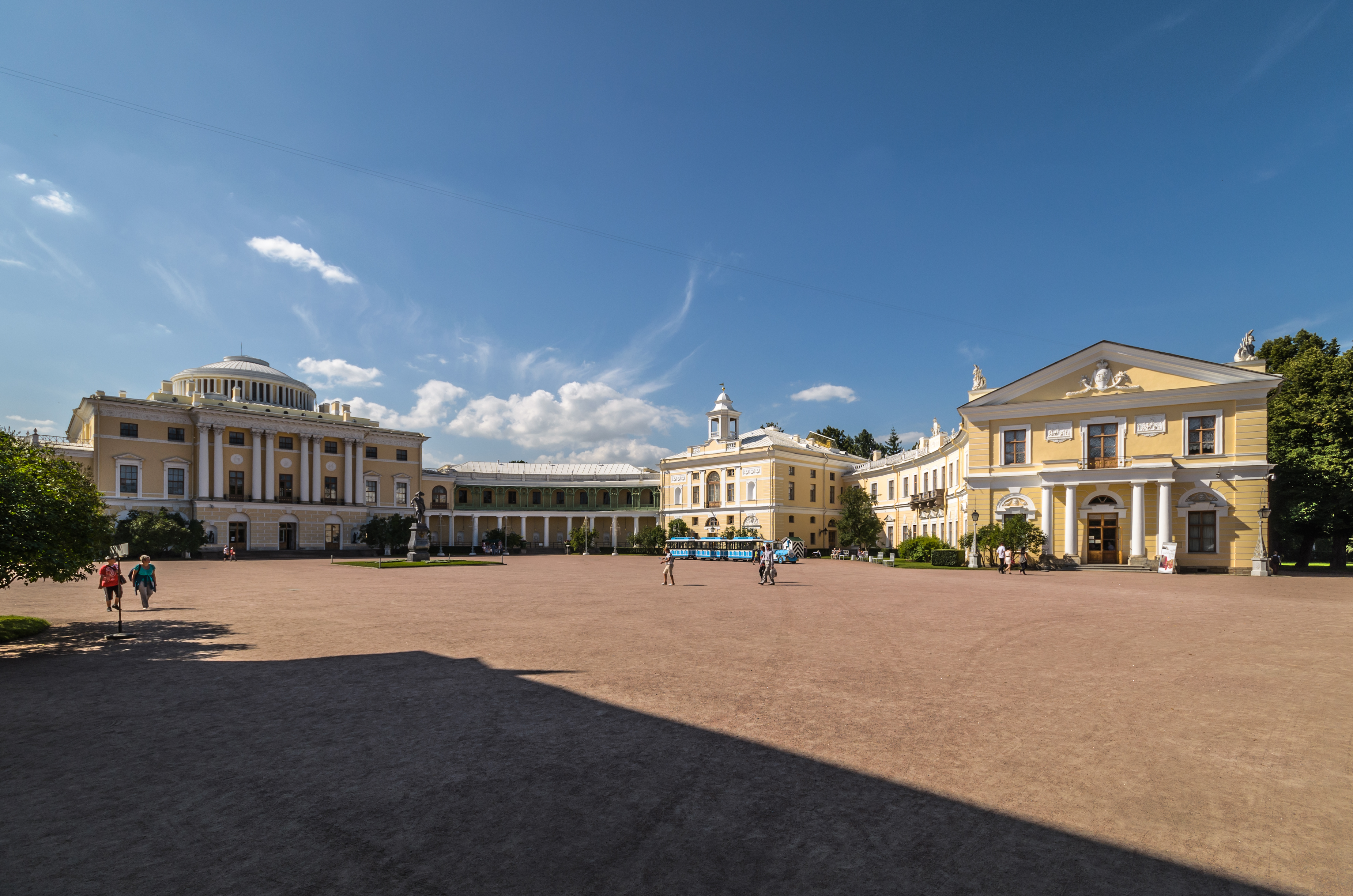 Pavlovsky Palace